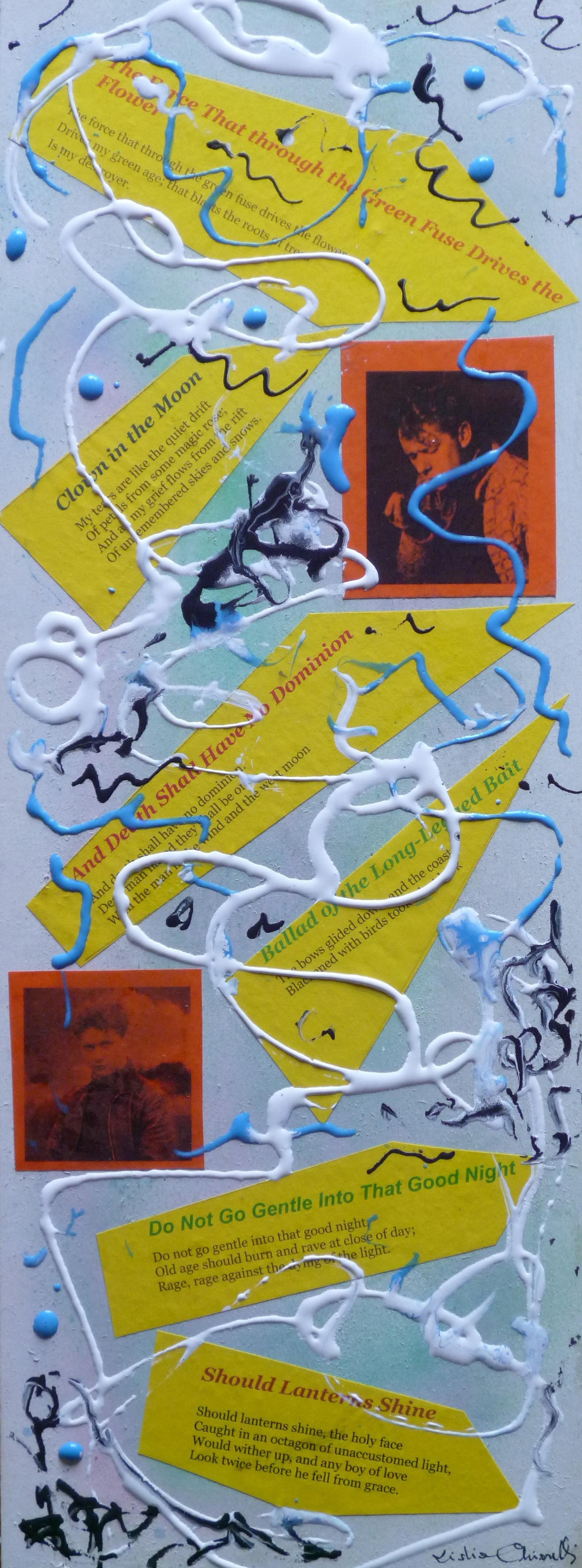 "Elegia per Dylan Thomas" is a Visual Poem as a homage to Dylan Thomas